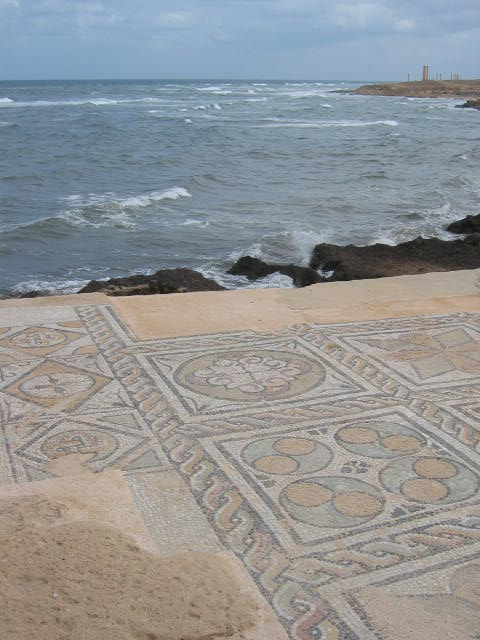 Seaward Baths, Sabratha, taken in November 2006